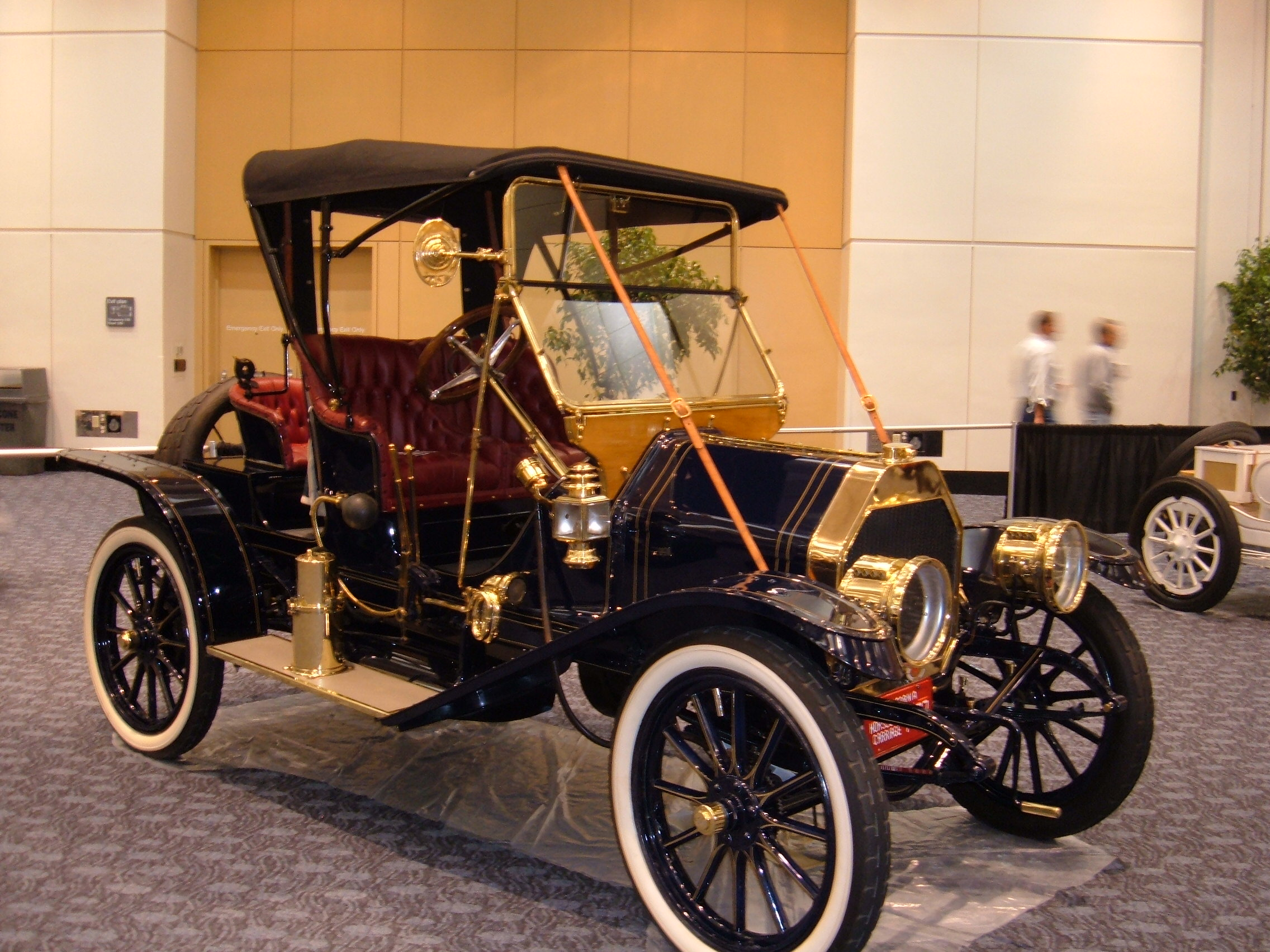 A 1910 Overland Model 38 at the 2004 San Francisco International Auto Show.